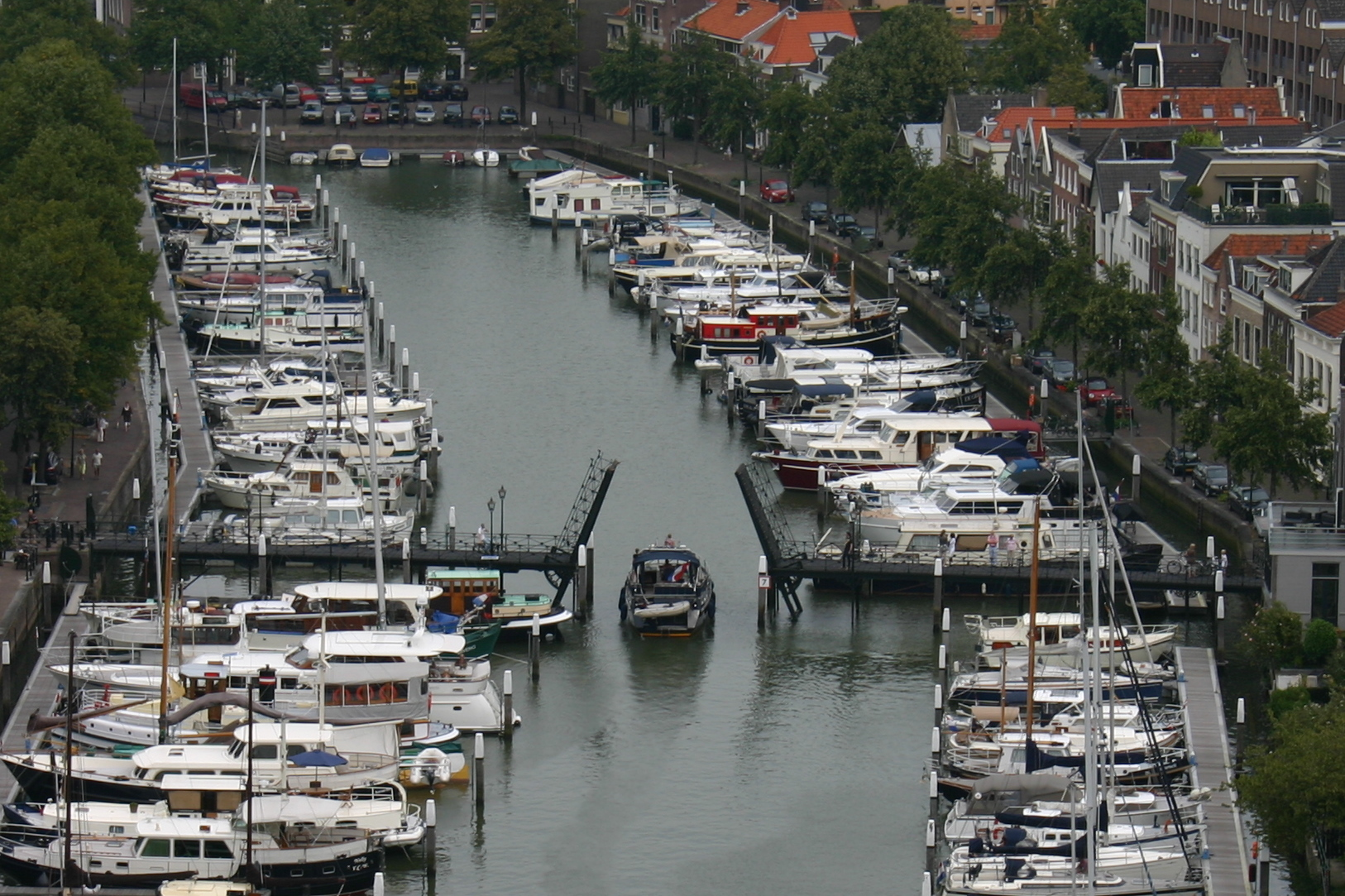 View of the Lange IJzeren Brug spanning the Nieuwe Haven, Dordrecht.